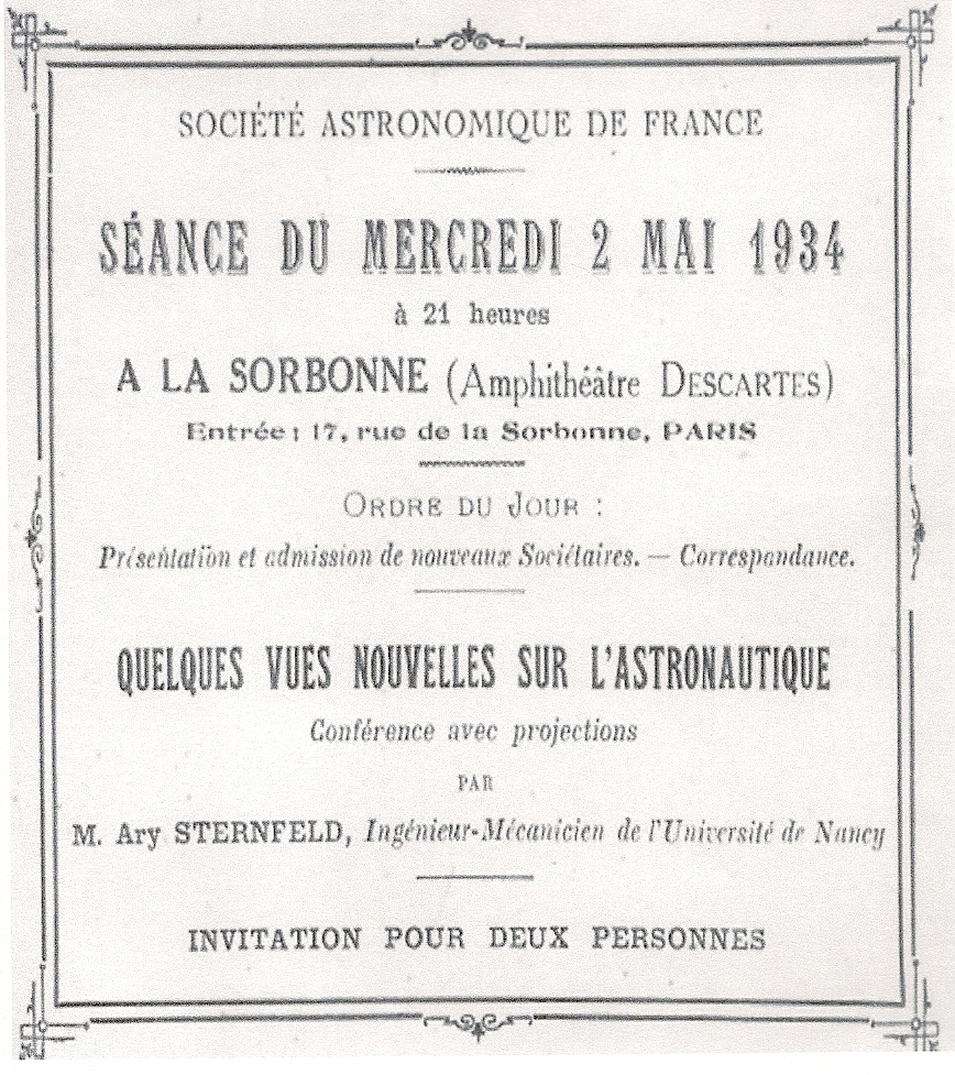 The invitation to the lecture delivered by A.Sternfeld "Some new approaches to the astronautics". Sorbonne. May 4, 1934